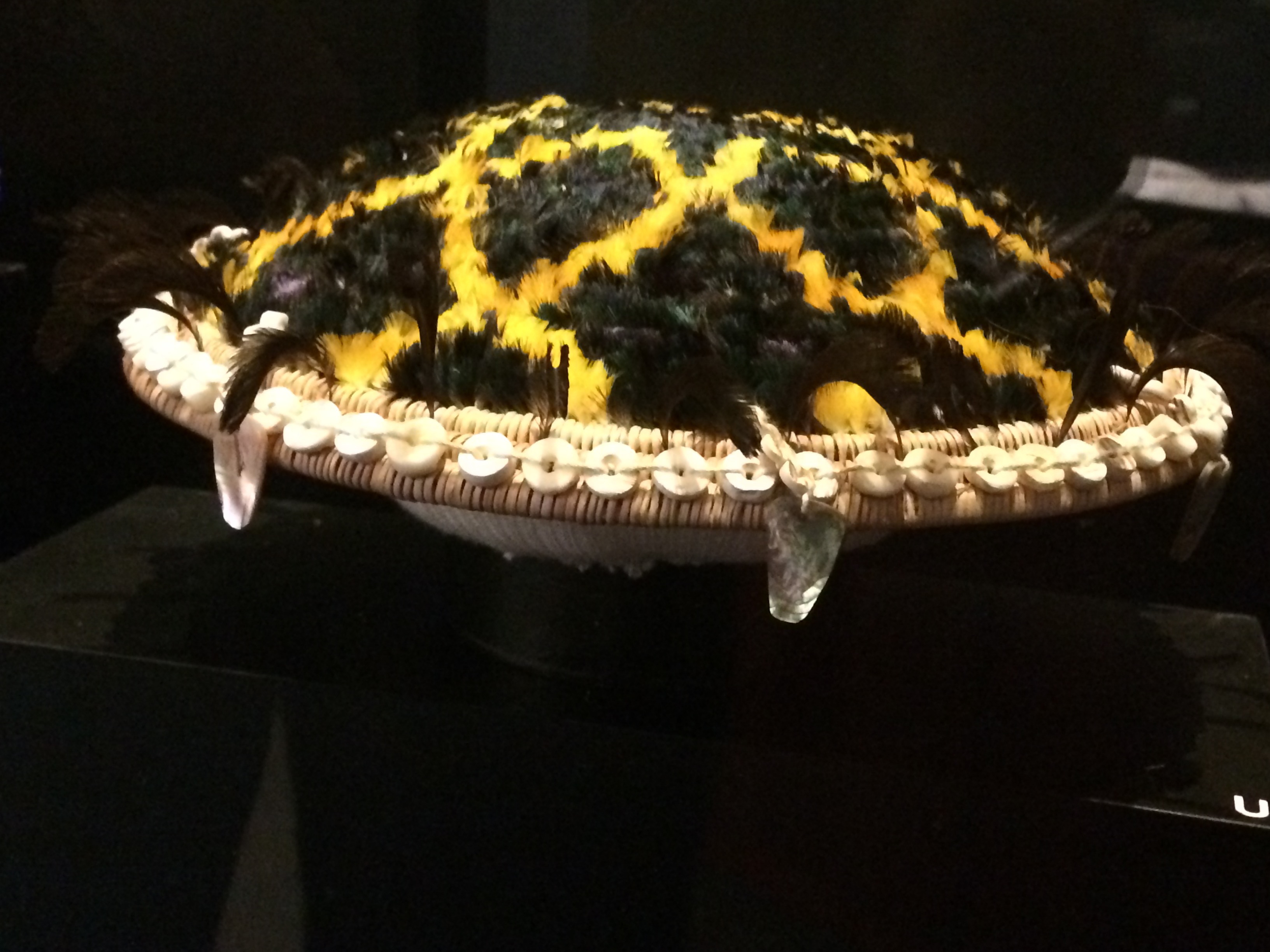 Pomo fully feathered basket in Jesse Peter museum. Artist: Suzanne Holder. Meadowlark and Mallard feathers cover this stunning basket. The rim is decorated with Washington clam shell money beads, abalone shell dangles, and quail top knot feathers.